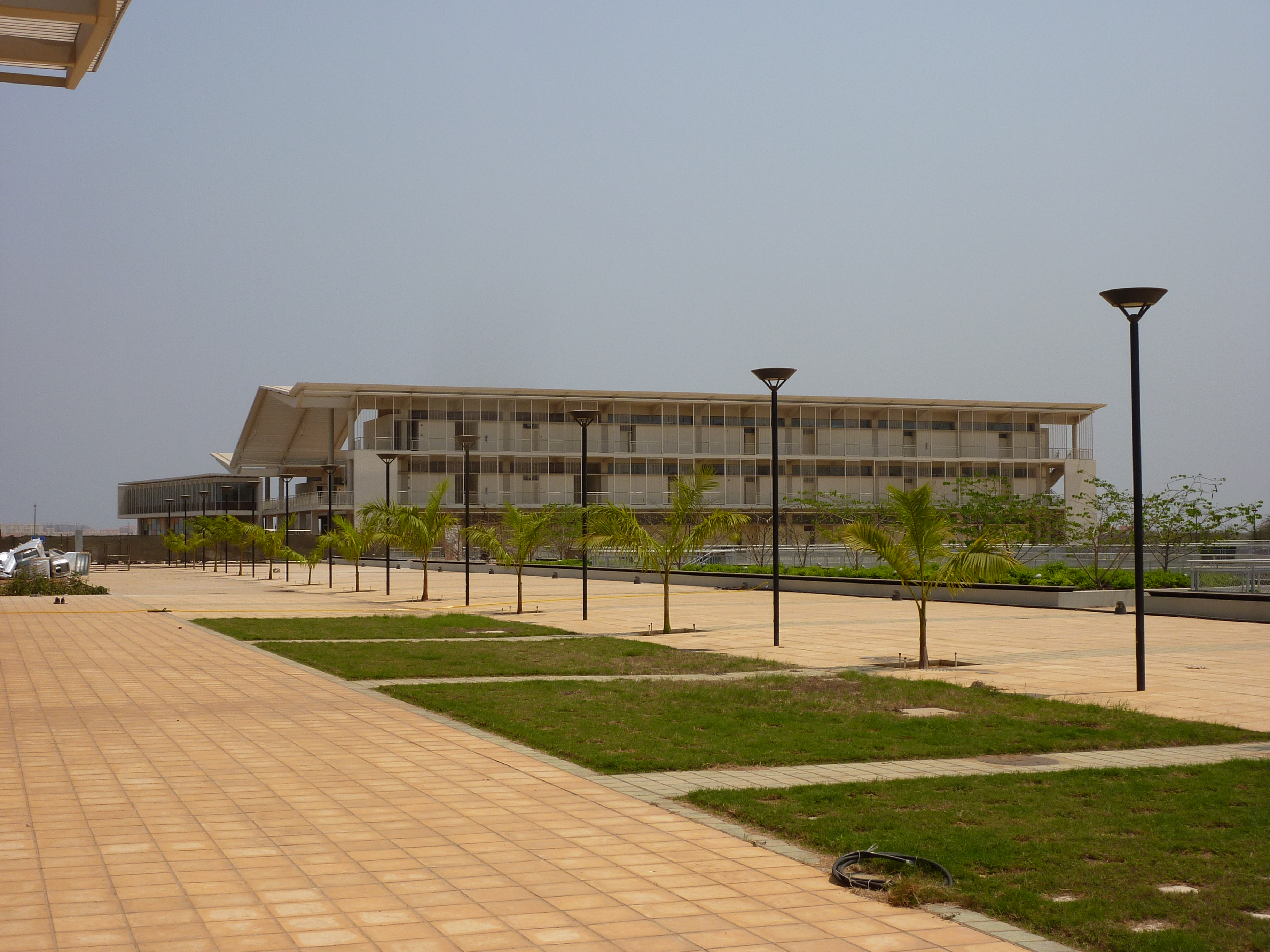 New campus